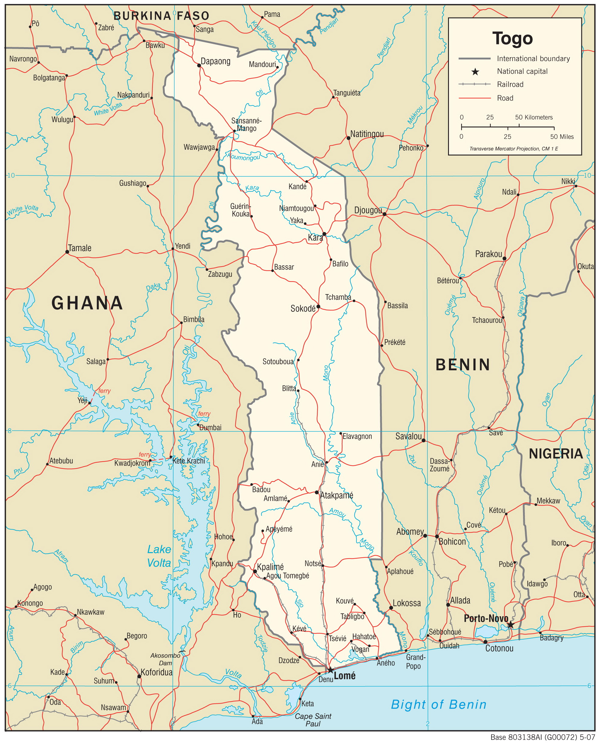 Transport system in Togo, 2007.